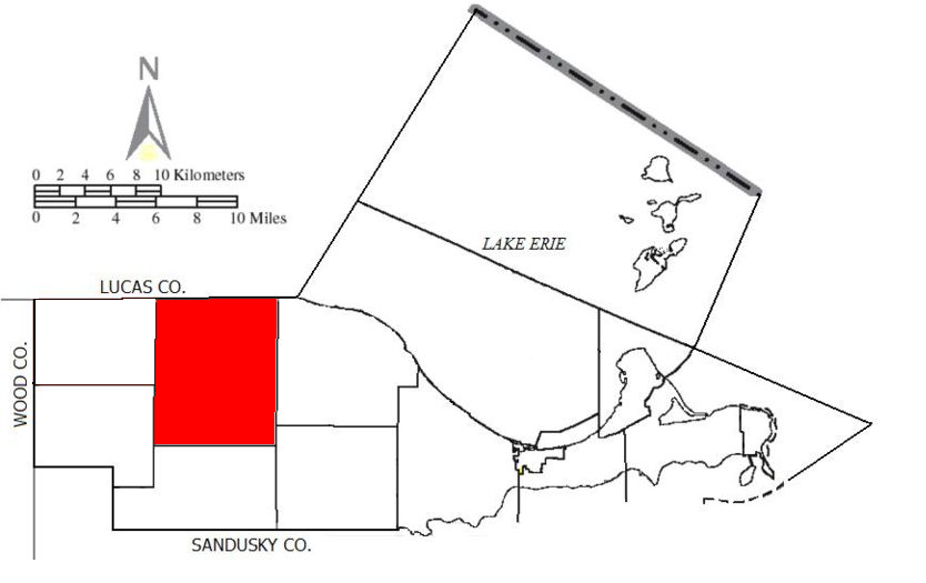 Made by the US Census and modified by me